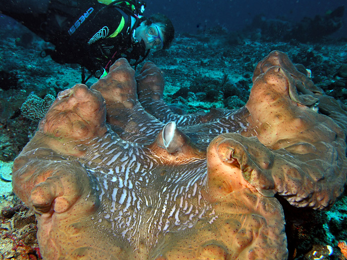 Giant clam Tridacna gigas from near Metinaro, East Timor, measuring over 1 meter in length.